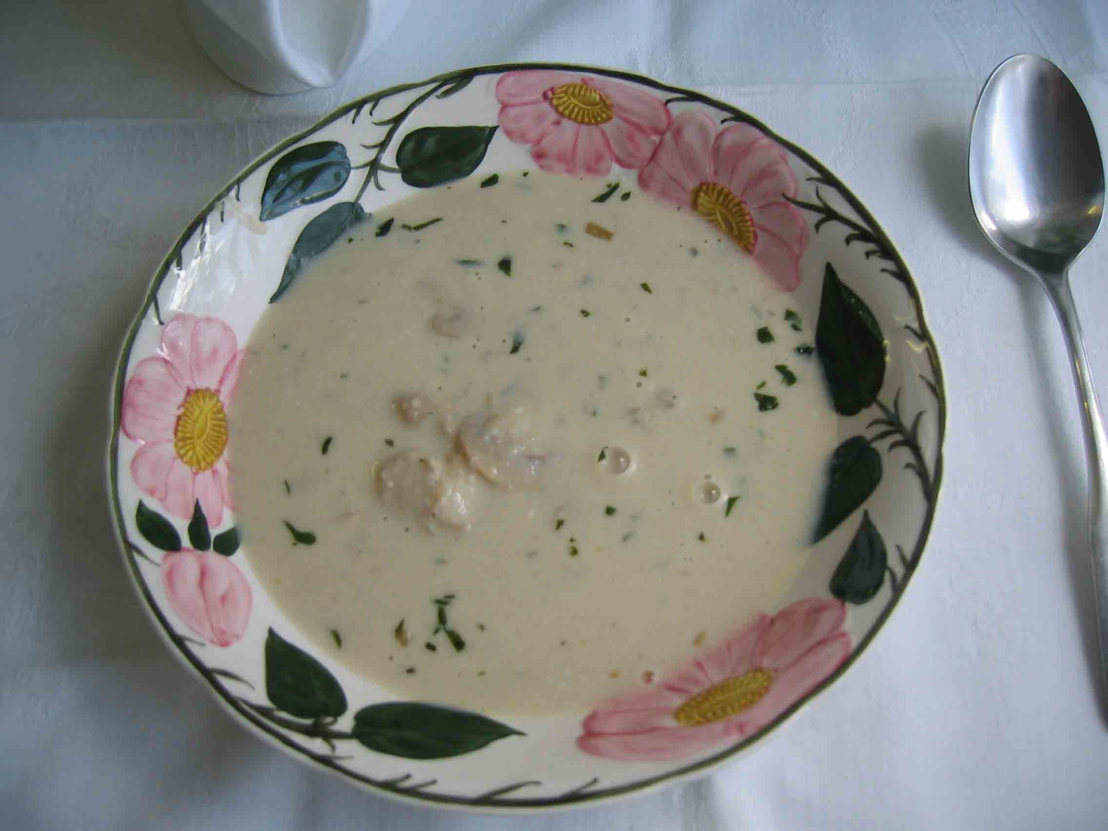 cream mushroom soup